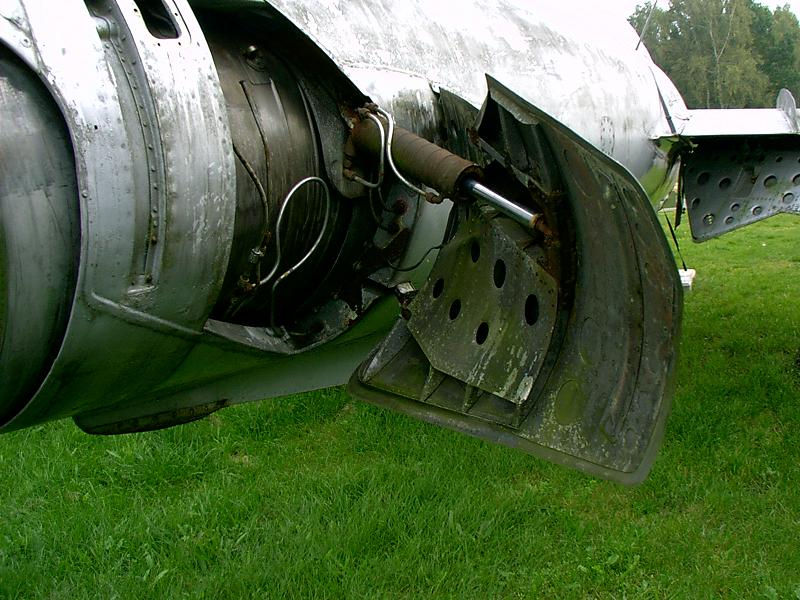 Tail air brake of a Mikoyan-Gurevich MiG-17F fighter